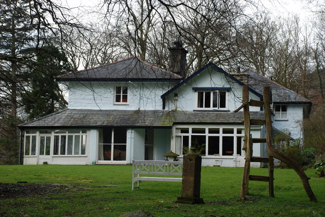 Plas Tan yr Allt Formerly the home of William Madocks, builder of the Cob and Tremadog. The poet Shelley stayed here in 1812 during the construction of the Cob. A hotel since 2005 it was before that the home of the local Steiner School.